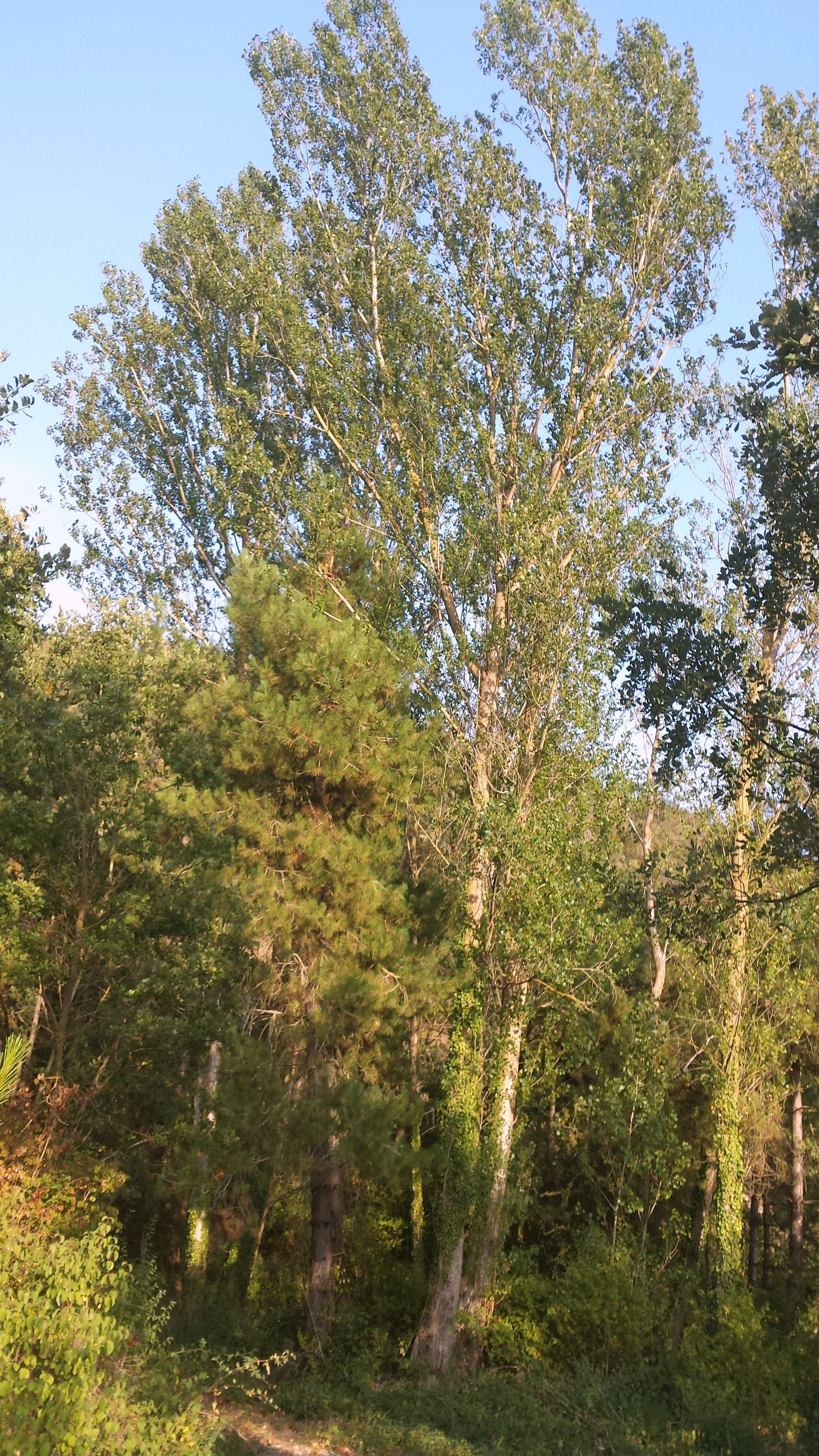 Populus are double height than Pinus nigra, Castelltallat, Catalonia